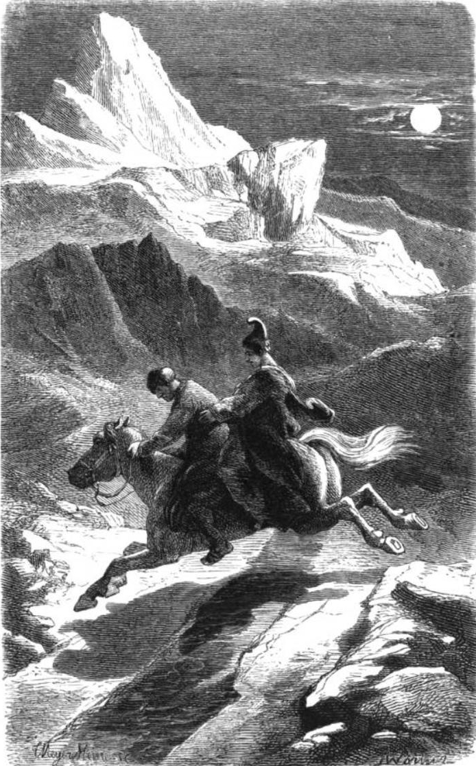 An engraving showing a man and a woman riding a horse. It is an illustration to the Icelandic legend of the Deacon of Myrká (Djákninn á Myrká).